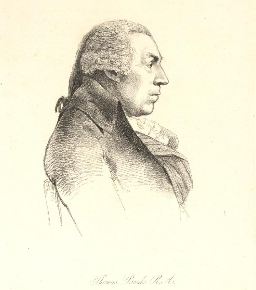 A portrait from the Welsh Portrait Collection at the National Library of Wales. Depicted person: Thomas Banks – 18th-century English sculptor